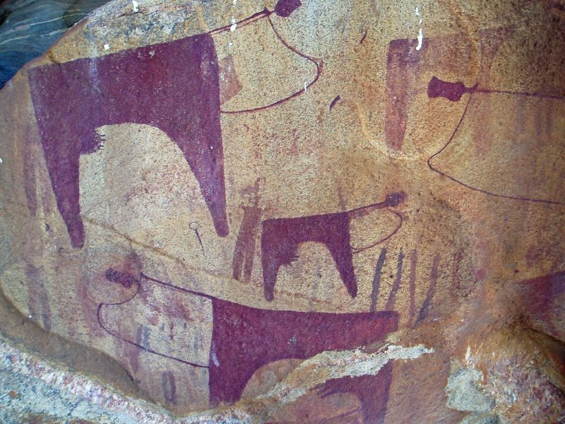 Detail of the Laas Geel cave paintings (near Hargeysa, Somaliland/Somalia) showing a cow herd.